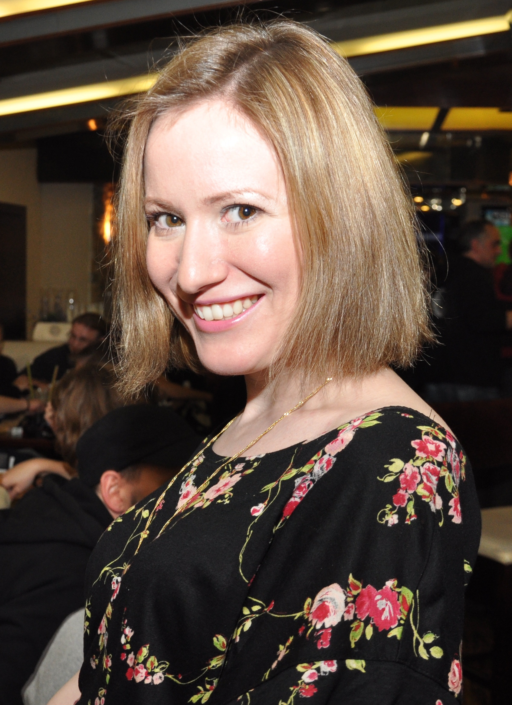 Lola Voronina (b. 1983), Russian politician and co-chairperson of Pirate Parties International (PPI)